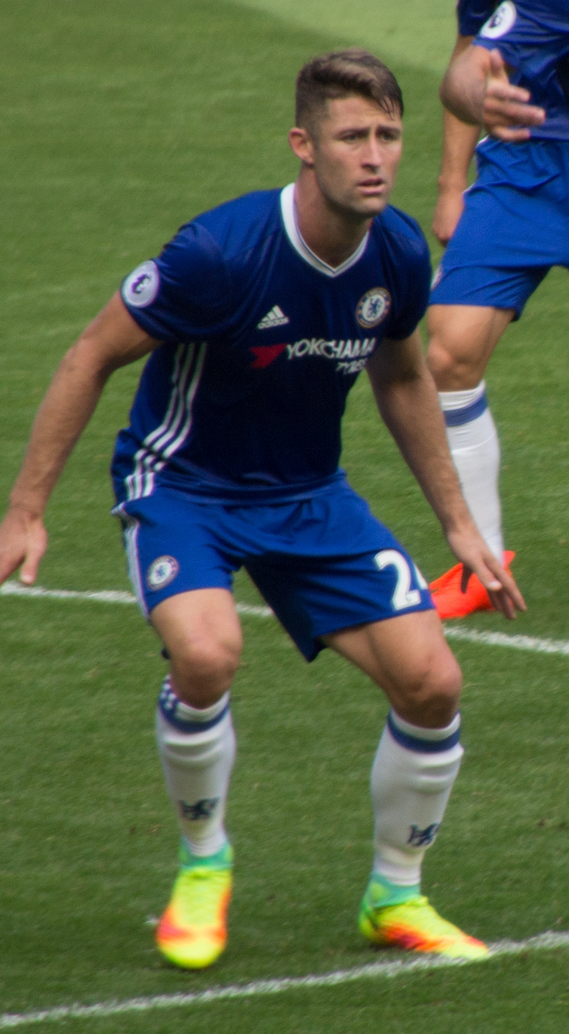 Gary Cahill playing for Chelsea against Burnley at Stamford Bridge, London on 27 August 2016